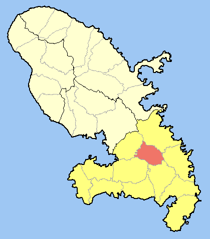 Location of Saint-Joseph within Martinique